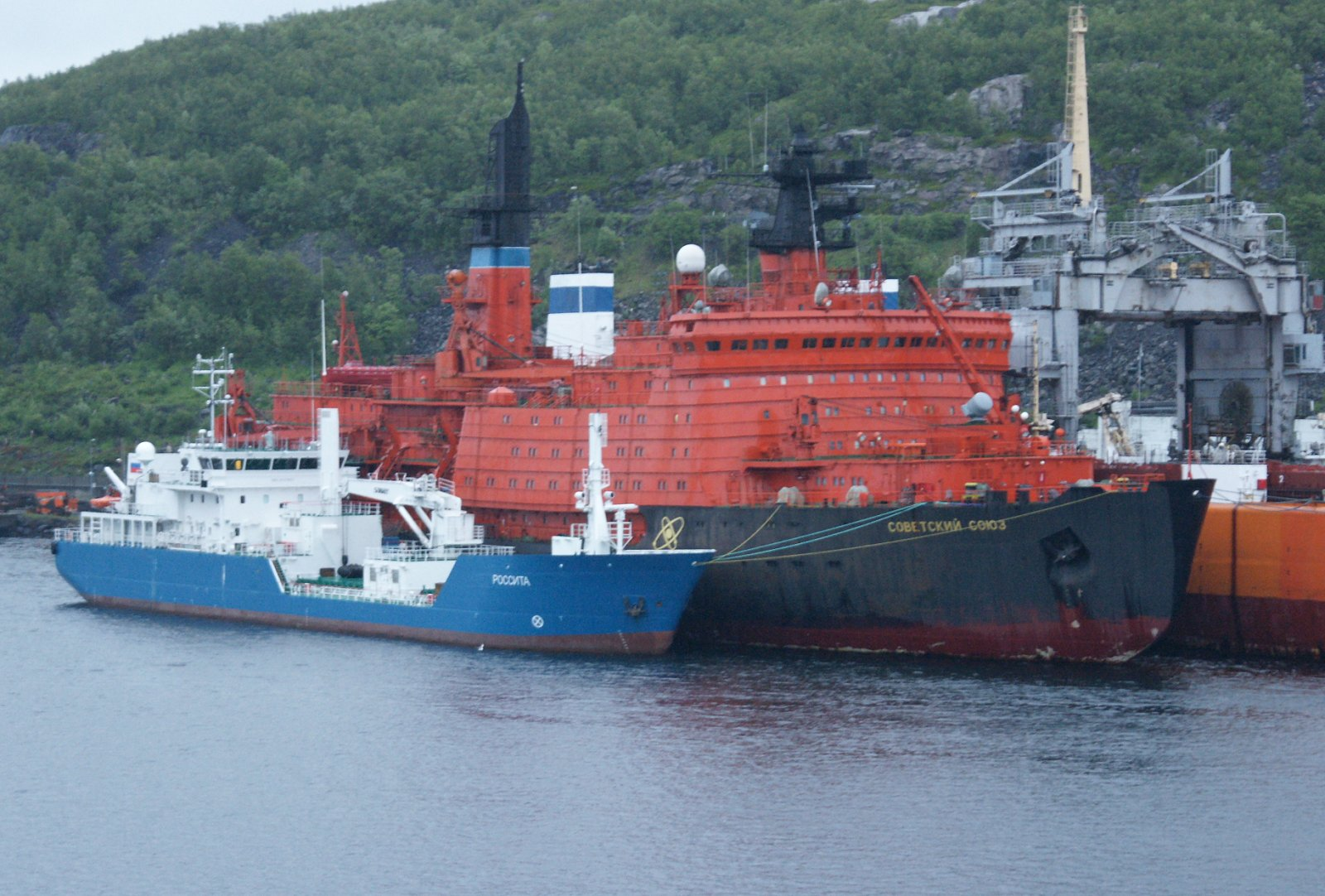 Nuclear i/b "Sovetskiy Soyuz" in Murmansk (July 2012)